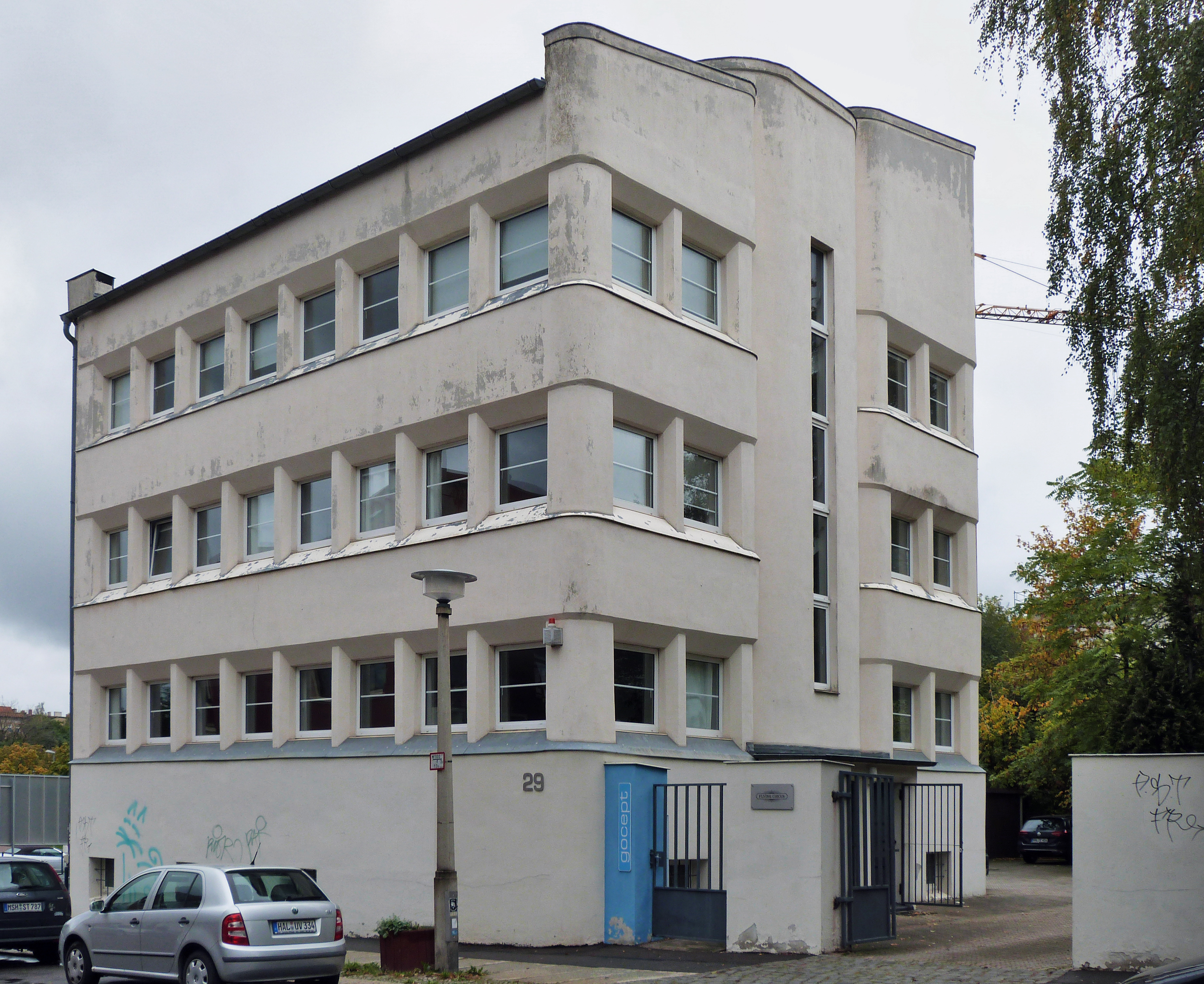 House No. 29, Forsterstrasse, Halle (Saale), office building, built in 1921/22, architect: Martin Knauthe, Alfred Gellhorn